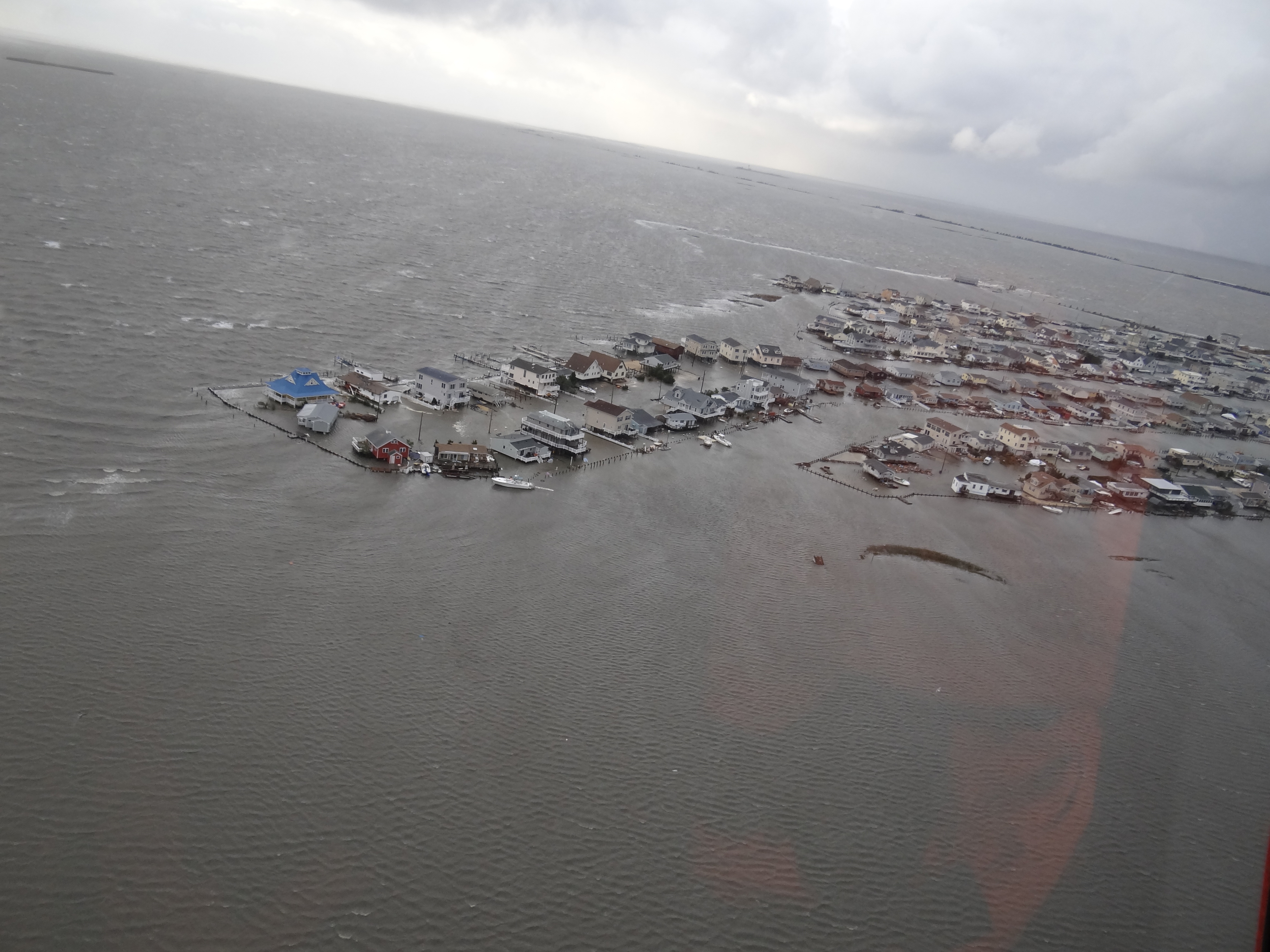 Homes are flooded in Tuckerton, N.J., Oct. 30, 2012, after Hurricane Sandy made landfall on the southern New Jersey coastline, Oct. 29, 2012. The photo was taken by a Coast Guard crewmember aboard an MH-65 Dolphin helicopter from Coast Guard Air Station Atlantic City during a flooding assessment overflight. U.S. Coast Guard photo. Unit: U.S. Coast Guard District 5 DVIDS Tags: New Jersey; Air Station Atlantic City; MH-65 Dolphin Helicopter; Heavy Weather; Hurricane Sandy; CGVI; DVIDS Bulk Import